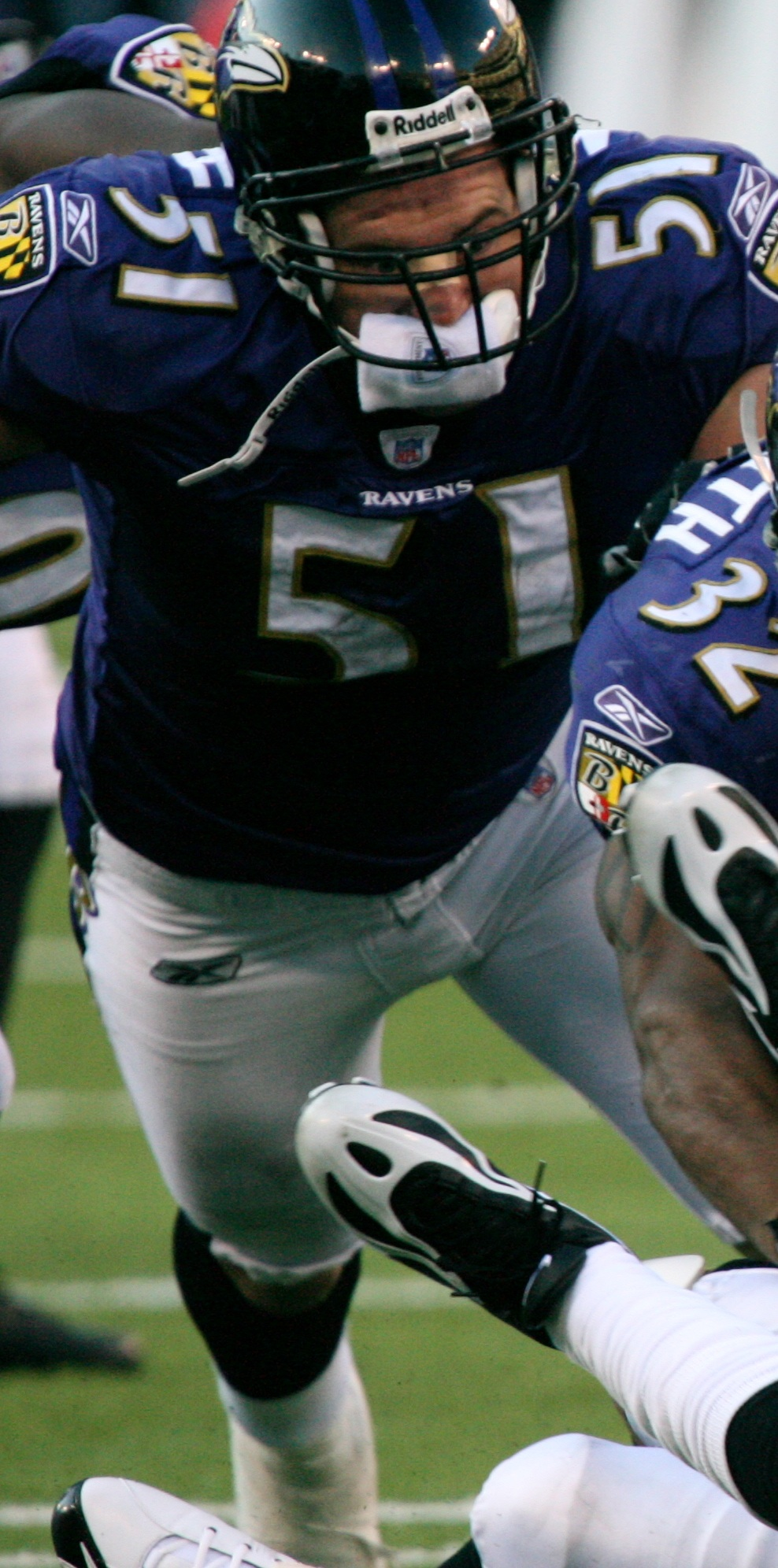 Musa Smith fumbles, recovered by Keiwan Ratliff